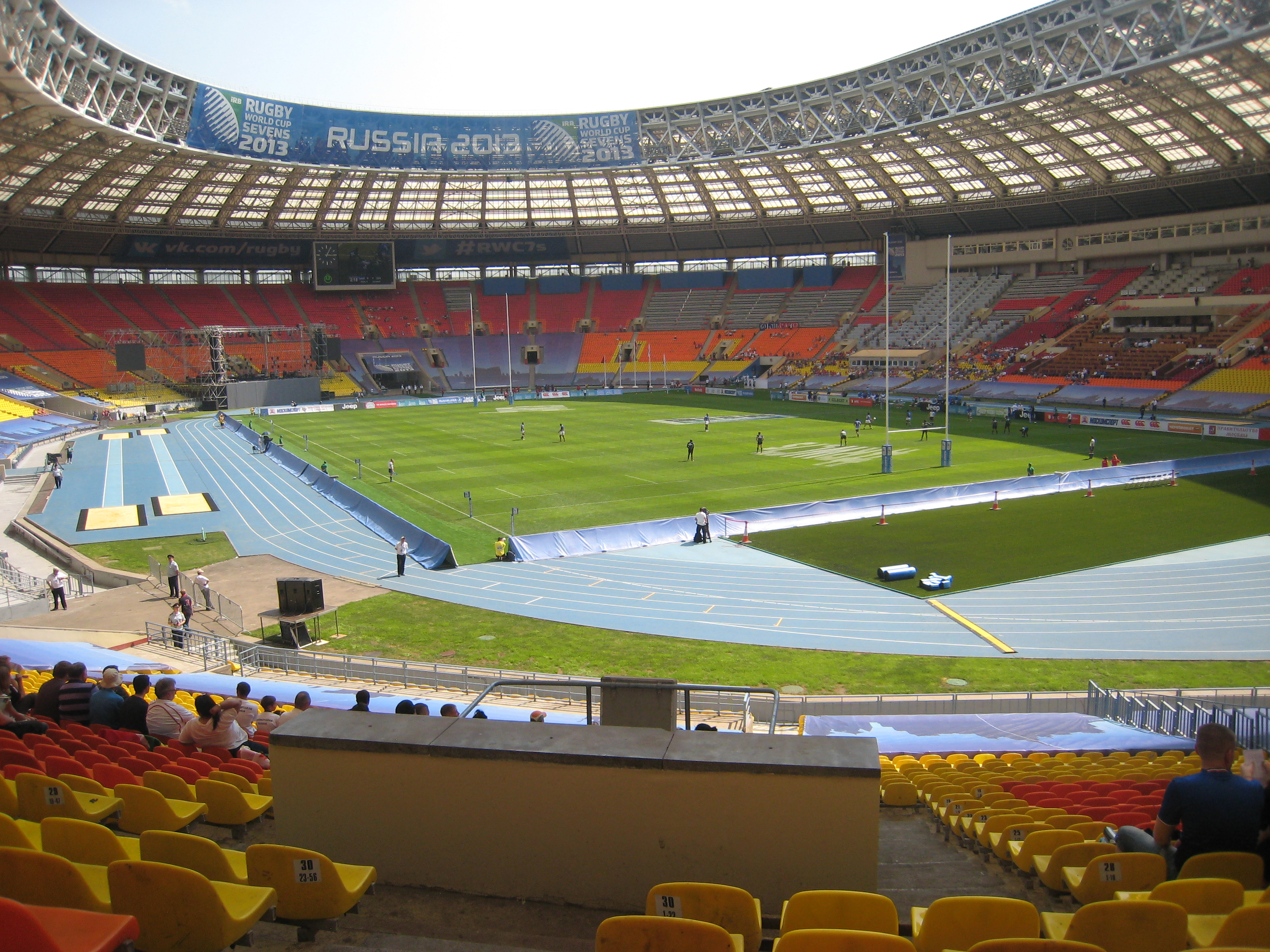 First Day of the 2013 Rugby World Cup Sevens in Moscow